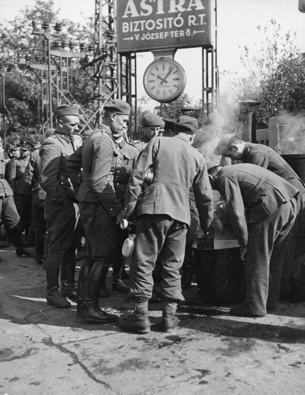 The German-soviet Invasion of Poland, 1939 Polish soldiers, escapees from Nazi-Soviet occupied Poland, sharing some soup from the Hungarian Army rations at Budapest train station.